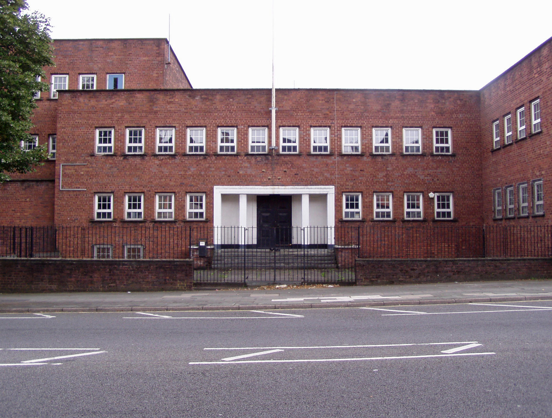 TA Building at junction of Edge Lane and Botnic Road, Liverpool